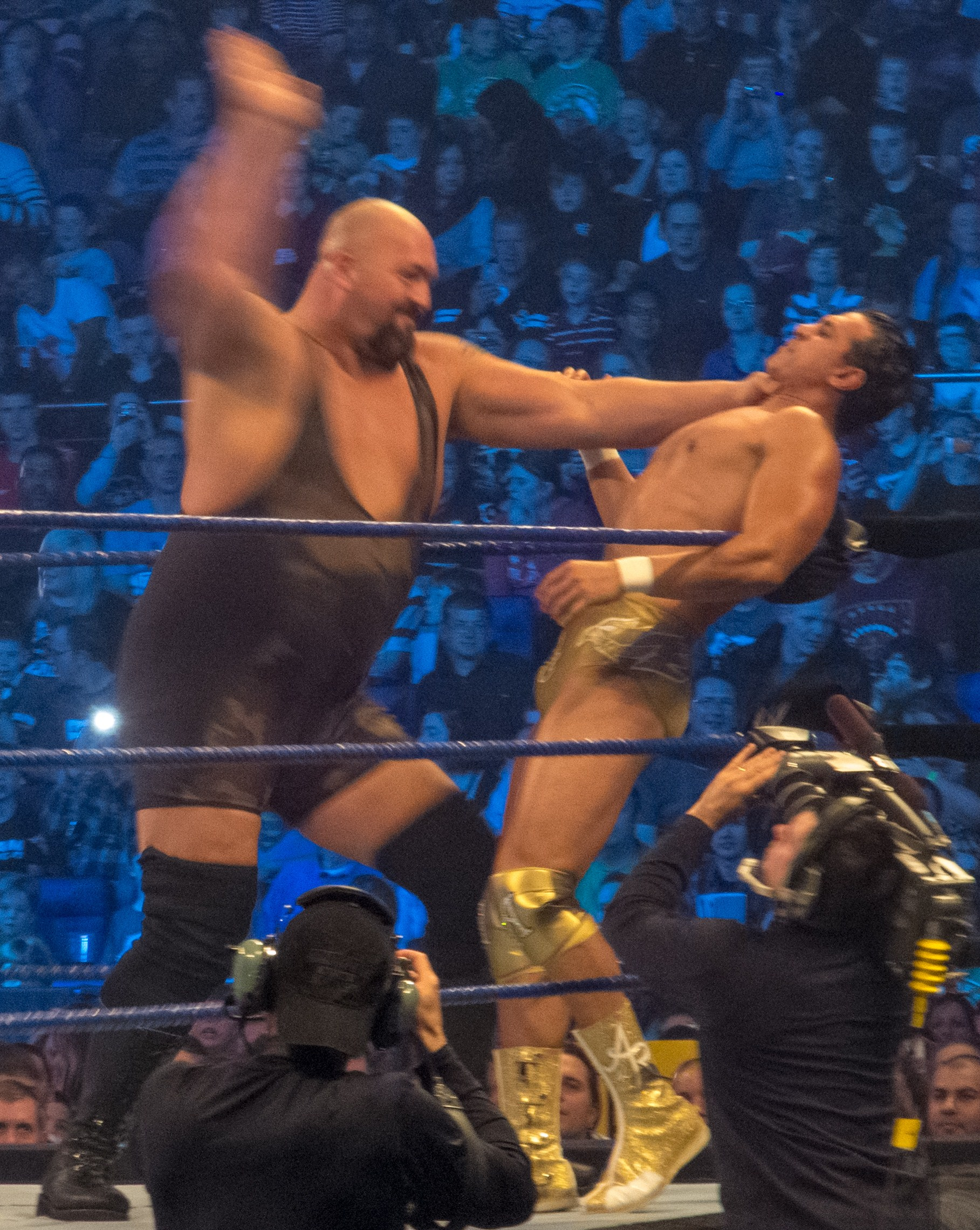 Big Show chops Alberto Del Rio at the WWE SmackDown tapings on 17 April 2012.